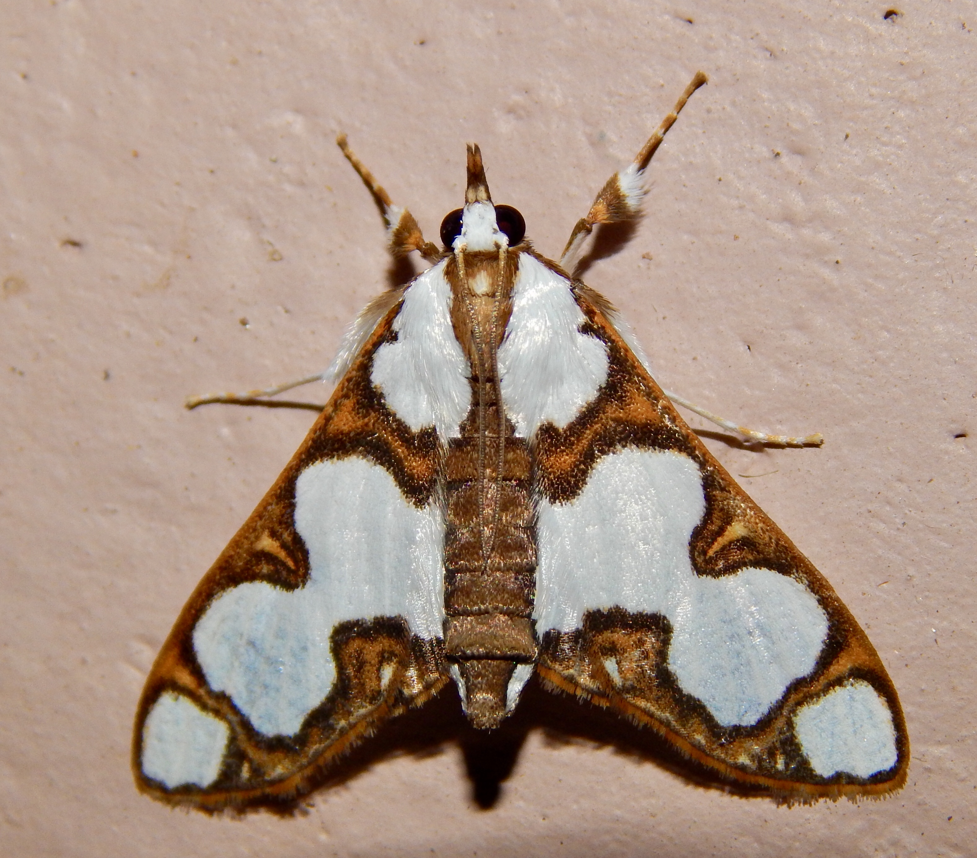 Cirrhochrista pulchellalis from Coorg, Western ghats of India